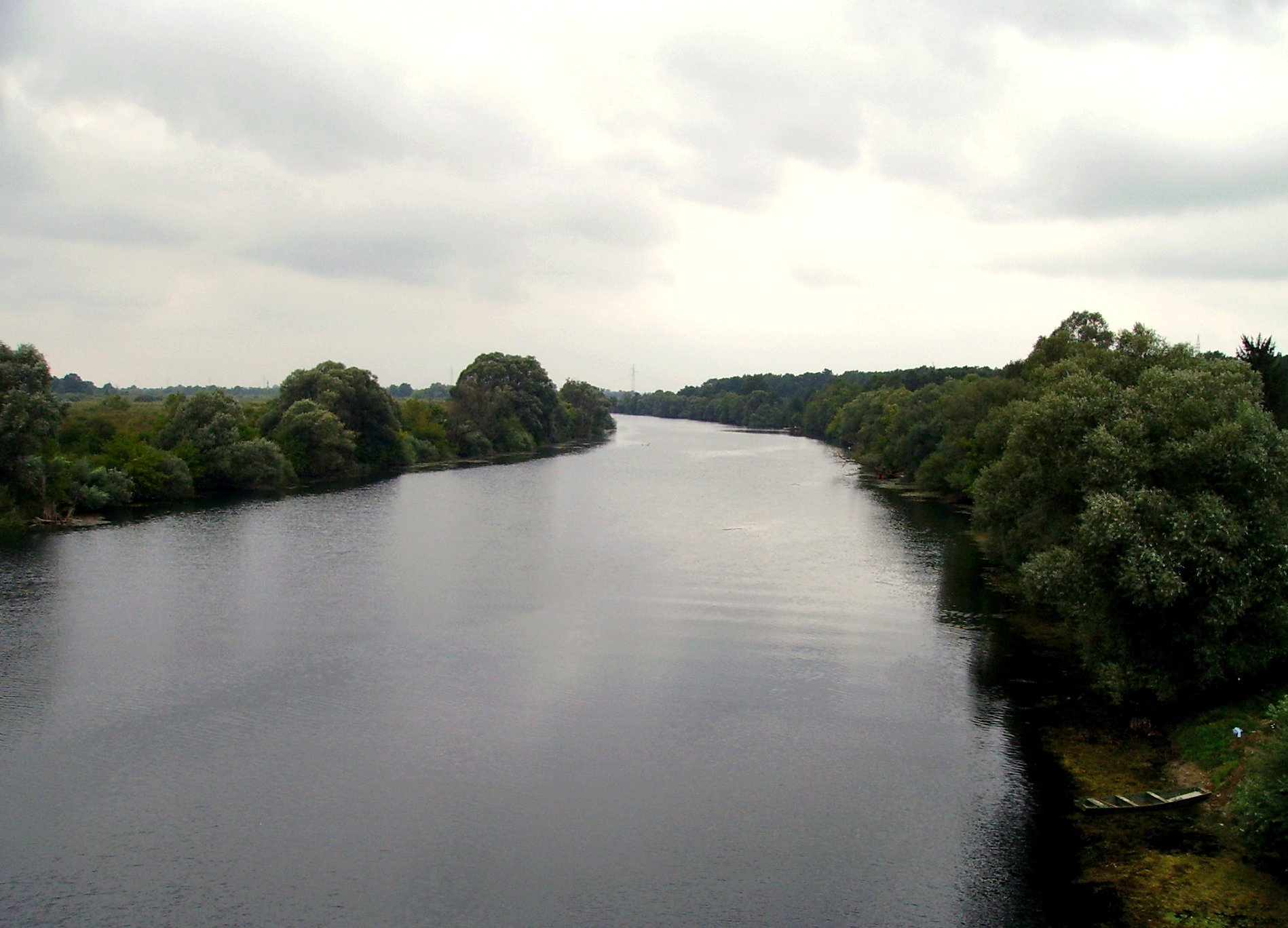 Kupa River near Pisarovina, Croatia.